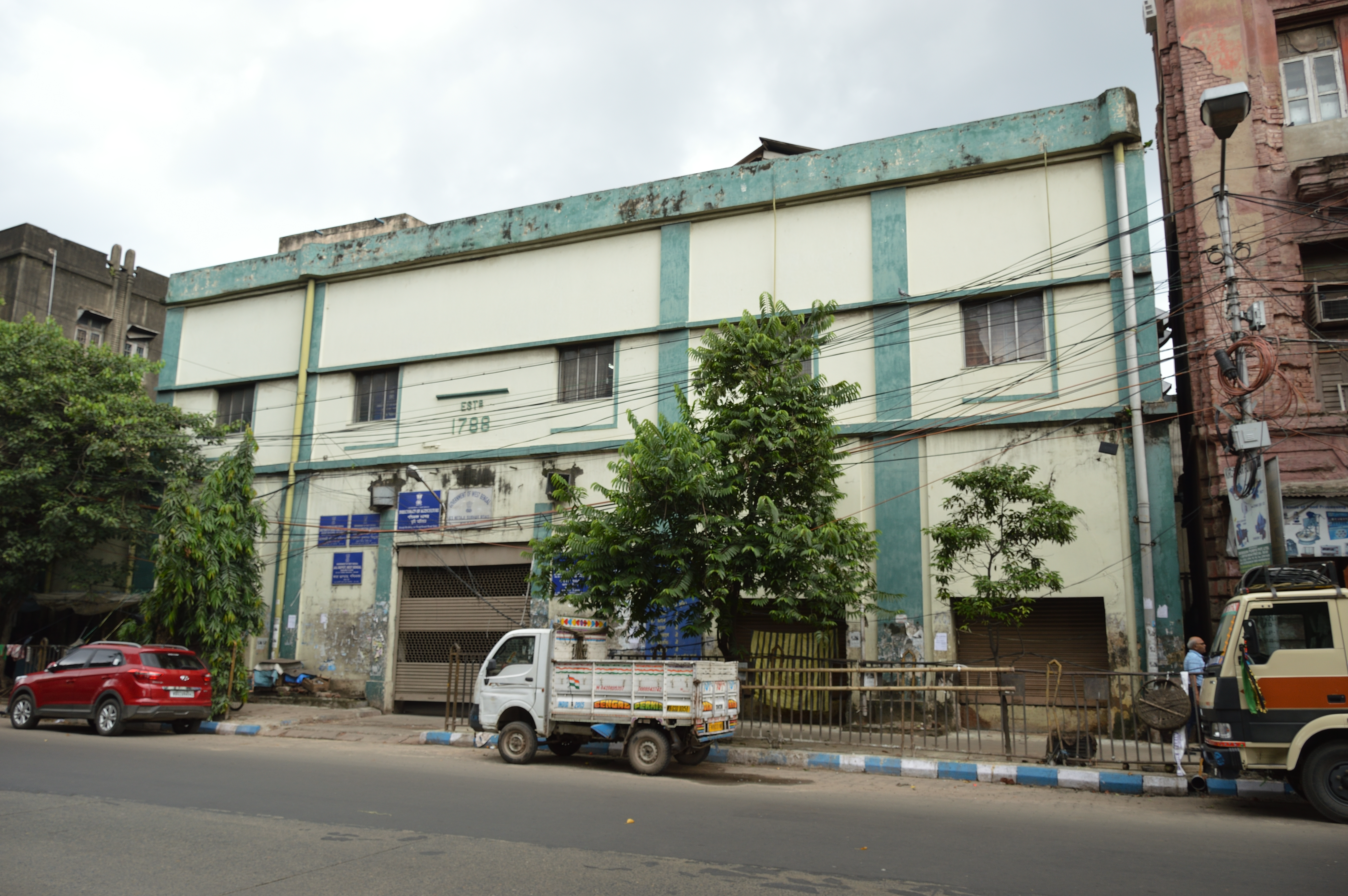 This photograph was taken from the Strand Road, Kolkata.